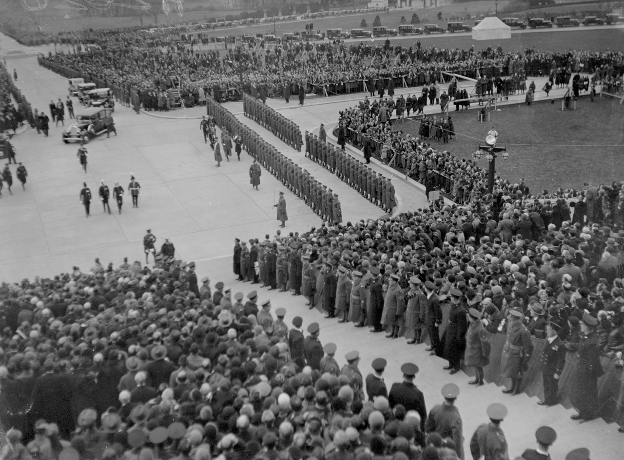 The scene at Stormont in Belfast, for the opening of the new Northern Ireland Parliament Buildings by the Prince of Wales. It was his first visit to Ireland. According to the next day's Irish Independent, the prince's route from Donegall Quay was crowded with cheering citizenry, and also "2,000 police, thousands of Orange stewards, and units of the Royal Navy." However, no Nationalist or Labour public representatives took part... It's interesting to see the sheer volume of cars - at least 54 are snaking up the road in the back and middle ground of this photo. Date: Wednesday, 16 November 1932 NLI Ref.: IND_H_2620